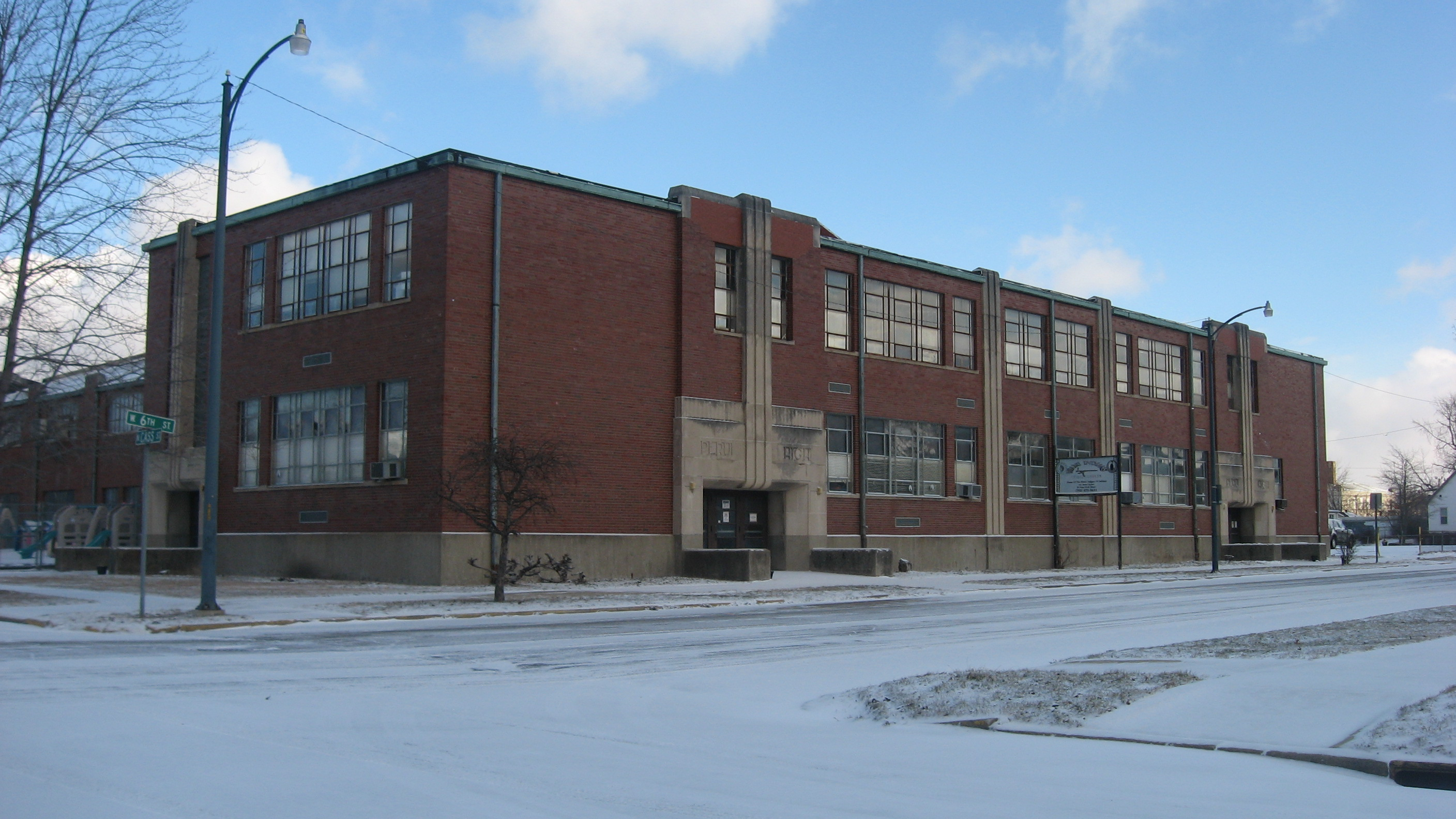 Front and western side of the old Peru High School, located at 60 W. Sixth Street in Peru, Indiana, United States. Built in 1939, it is part of the Peru High School Historic District, a historic district that is listed on the National Register of Historic Places.